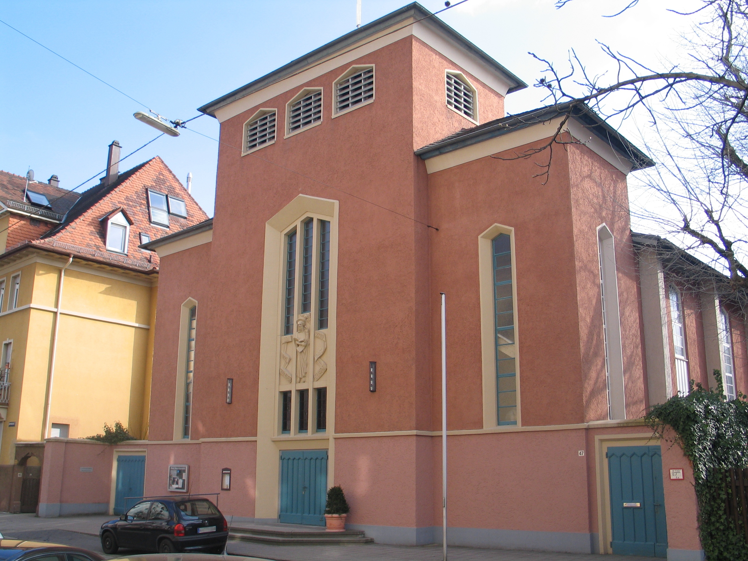 Matthäuskirche (Mathew Church) in Karlsruhe